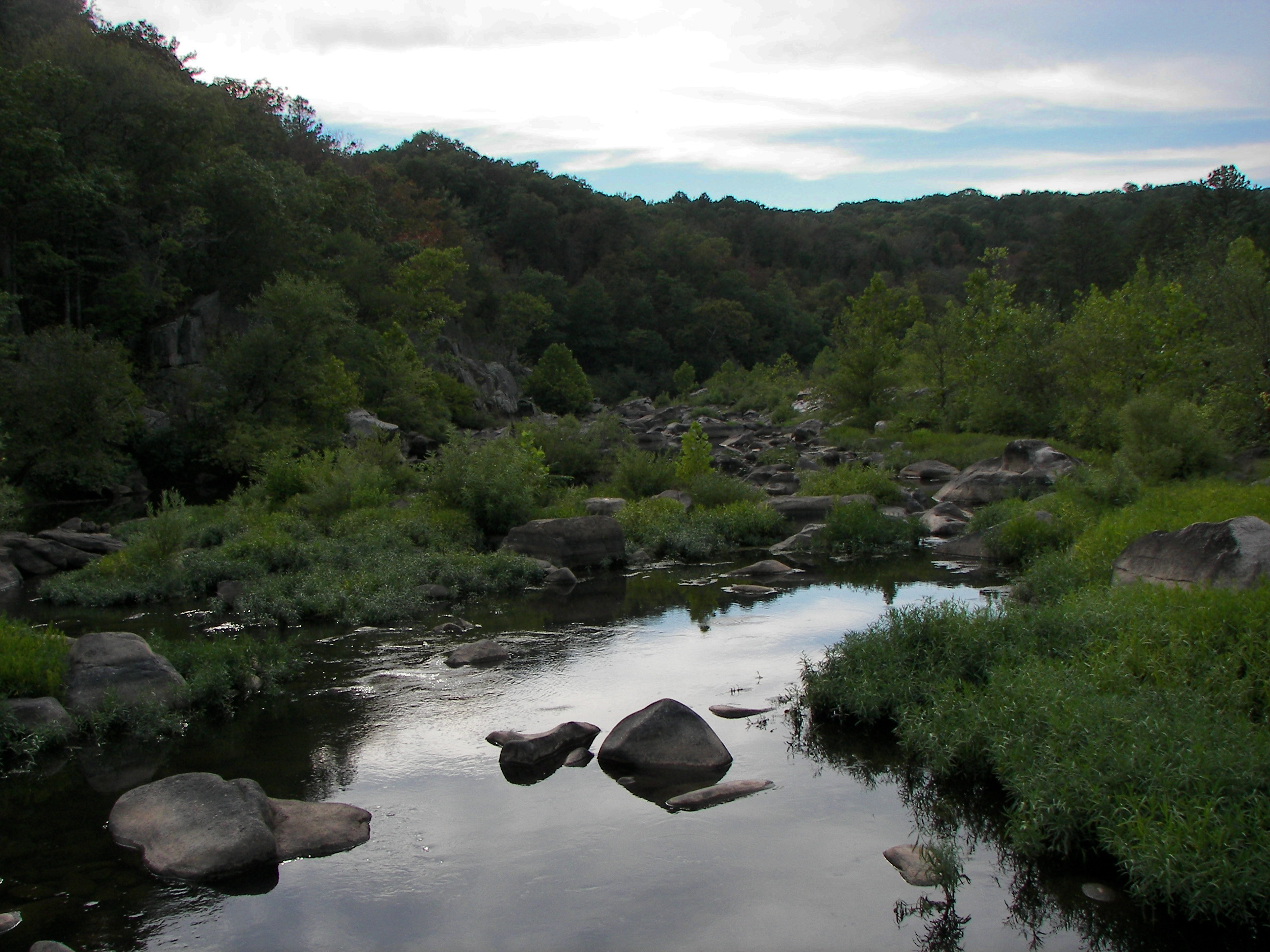 The St. Francis River at the Silver Mines Recreation Area in Missouri. This picture was taken in August when the water was very low. In the spring this is a class III whitewater stream.